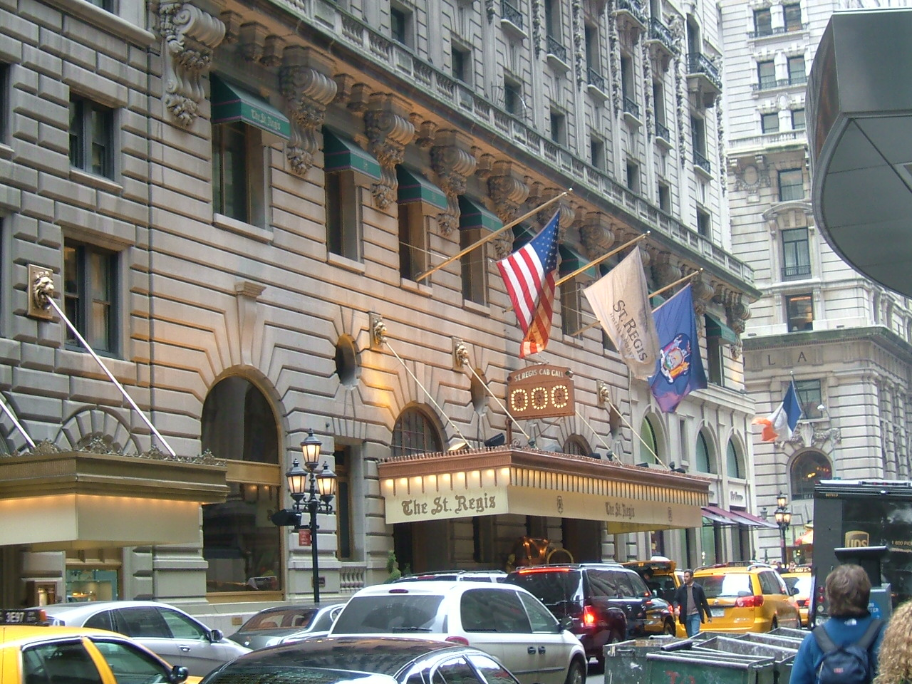 The St. Regis Hotel New York. Hotel in NY,USA., Manhattan.